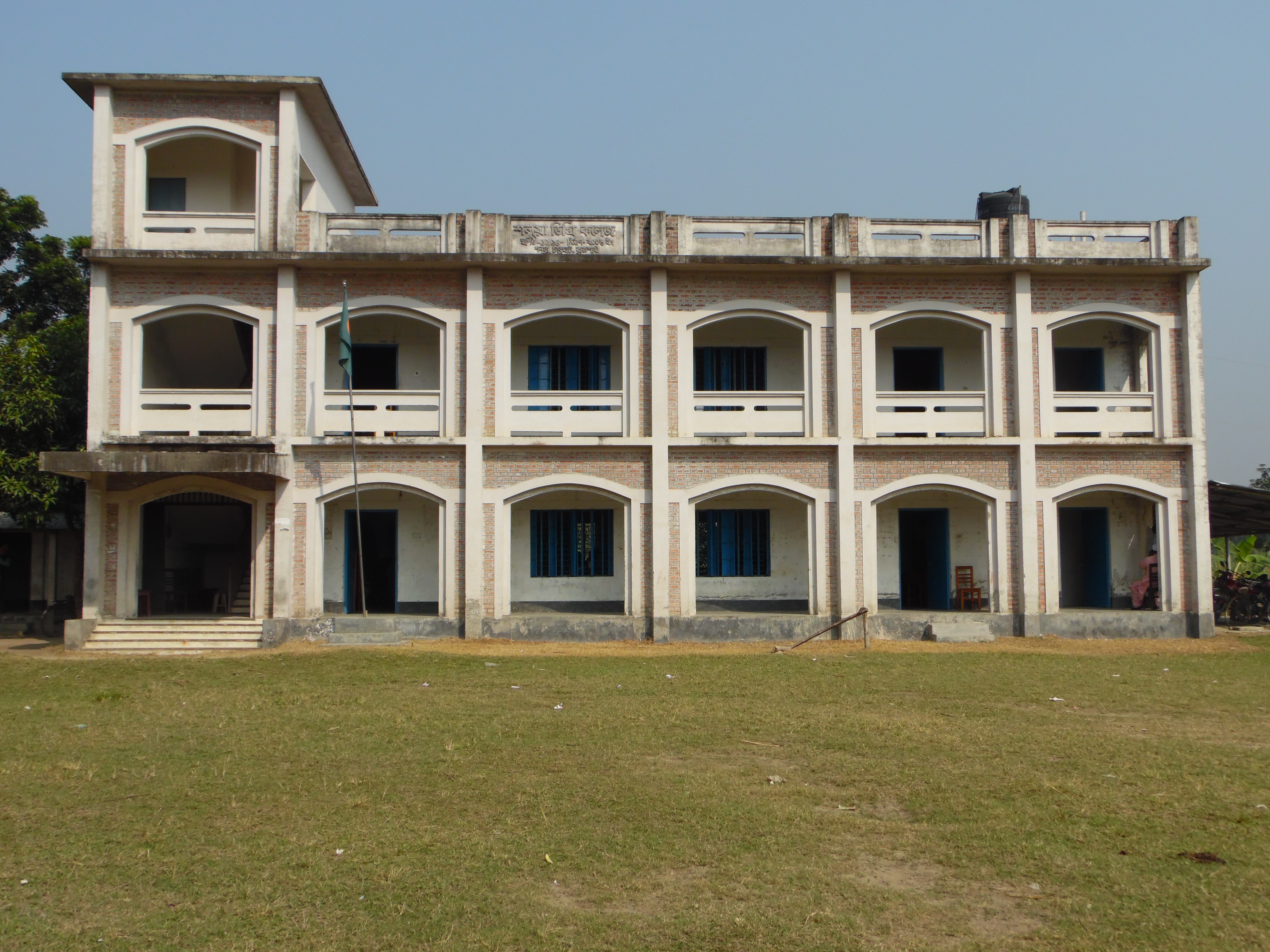 Sholua Degree College is a college in Rajshahi.